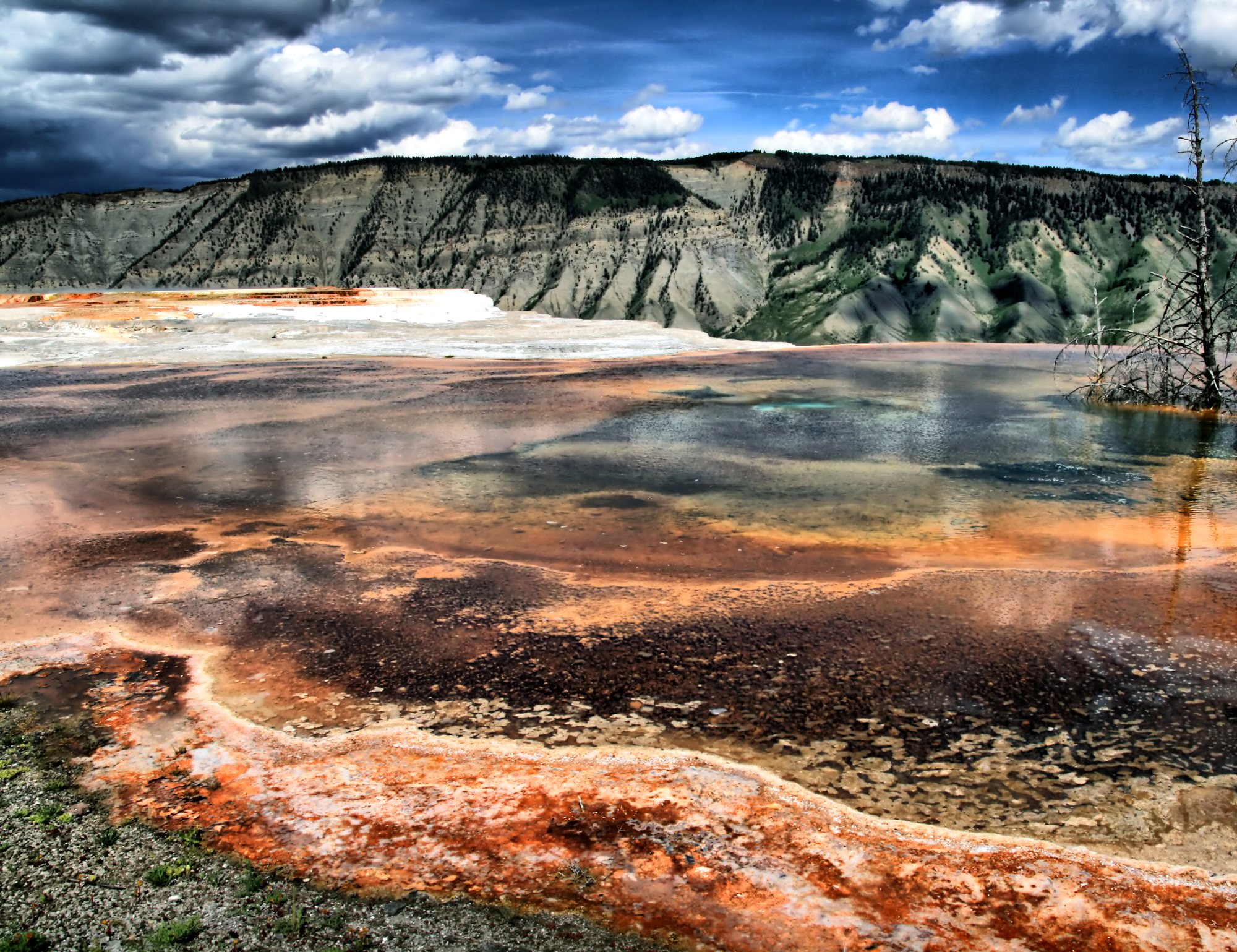 Dead trees in the terraces of Mammoth Hot Springs, Yellowstone National Park, Montana, US. These trees grew during inactivity of the mineral-rich springs, and were killed when calcium carbonate carried by spring water clogged the vascular systems of the trees. The same process also effectively preserves the trees by preventing decay.